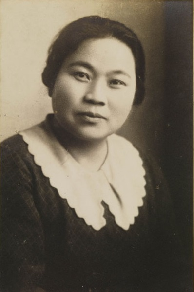 She is TOKURA Haru, an assistant professor of Tokyo Women's Normal School (Now: Ochanomizu University).